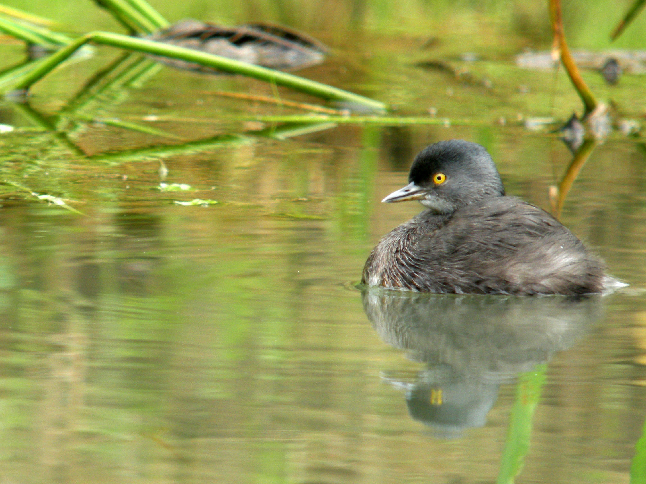 Tachybaptus dominicus Swarowski 80 HD 30 X, Coolpix P5100 (Adapter DCB)